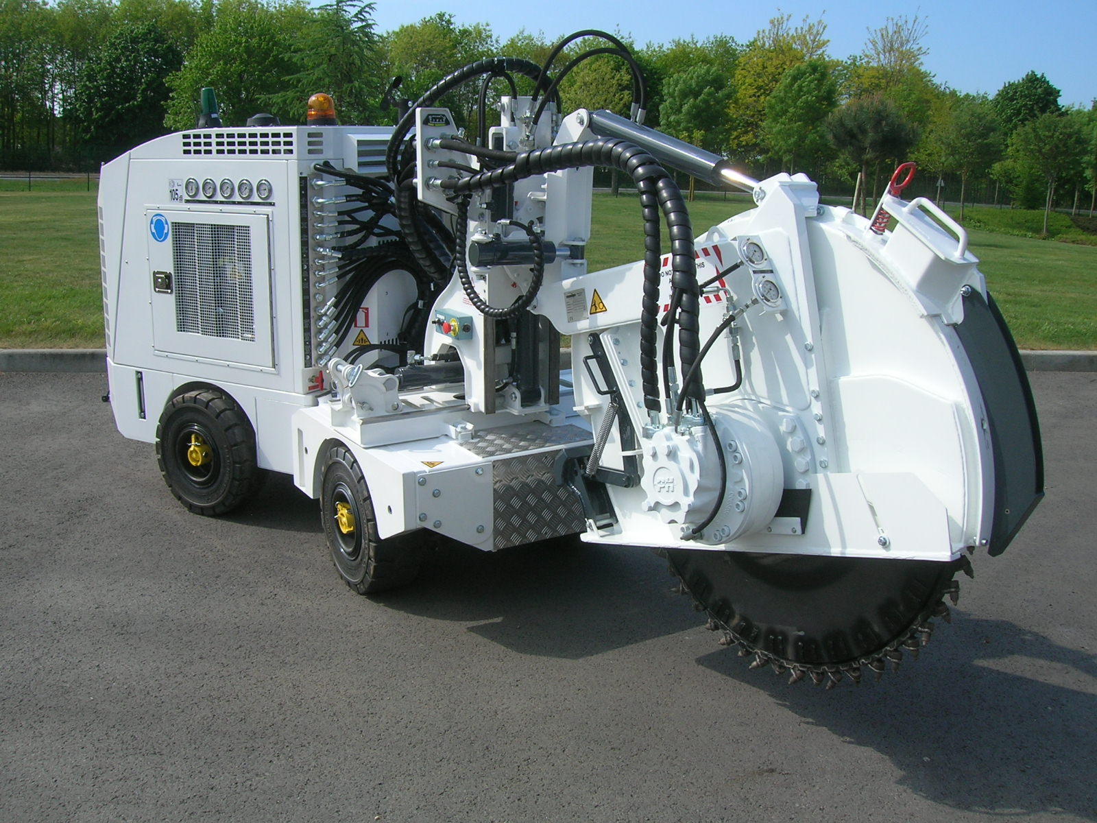 A Marais micro trencher machine - Side Cut RT100